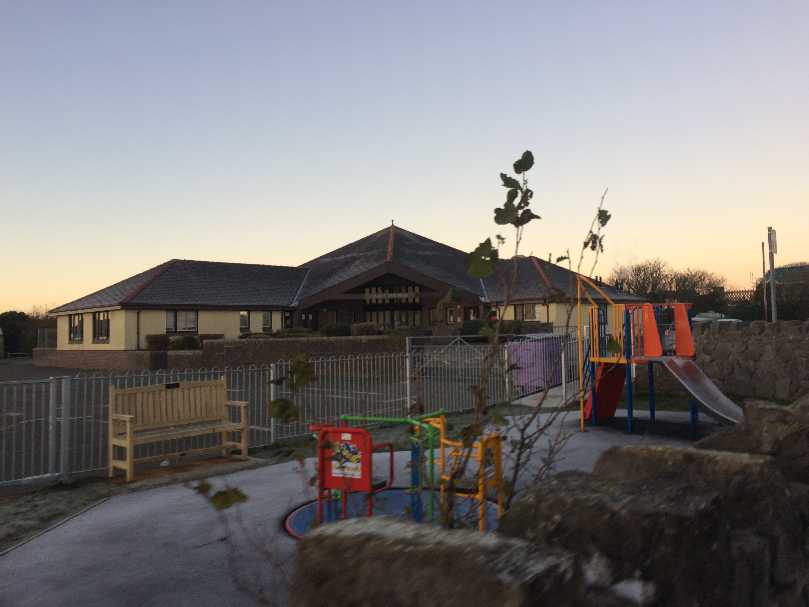 Henblas primary school